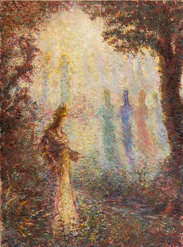 Rusalki - slavic a symbolic scene